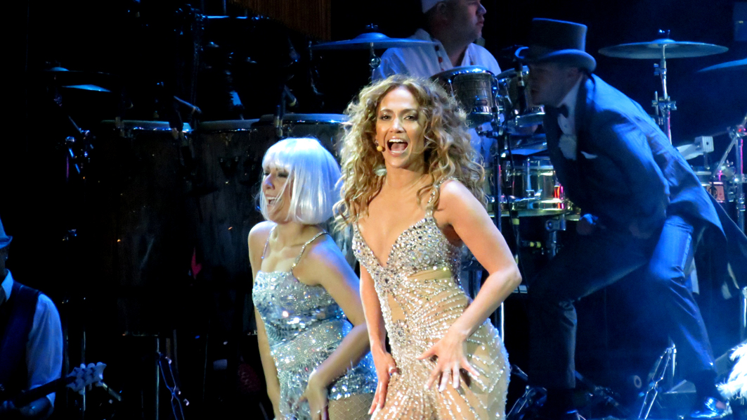 Jennifer Lopez live at the Pop Music Festival in São Paulo, Brazil.